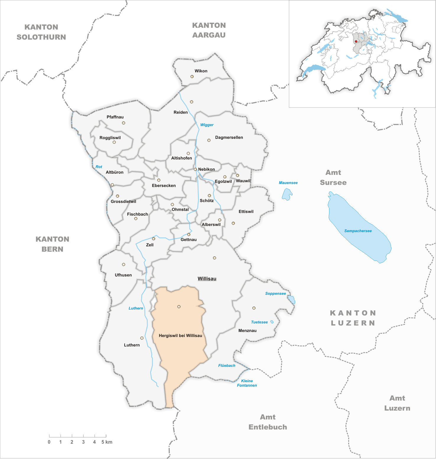 Municipality Hergiswil bei Willisau